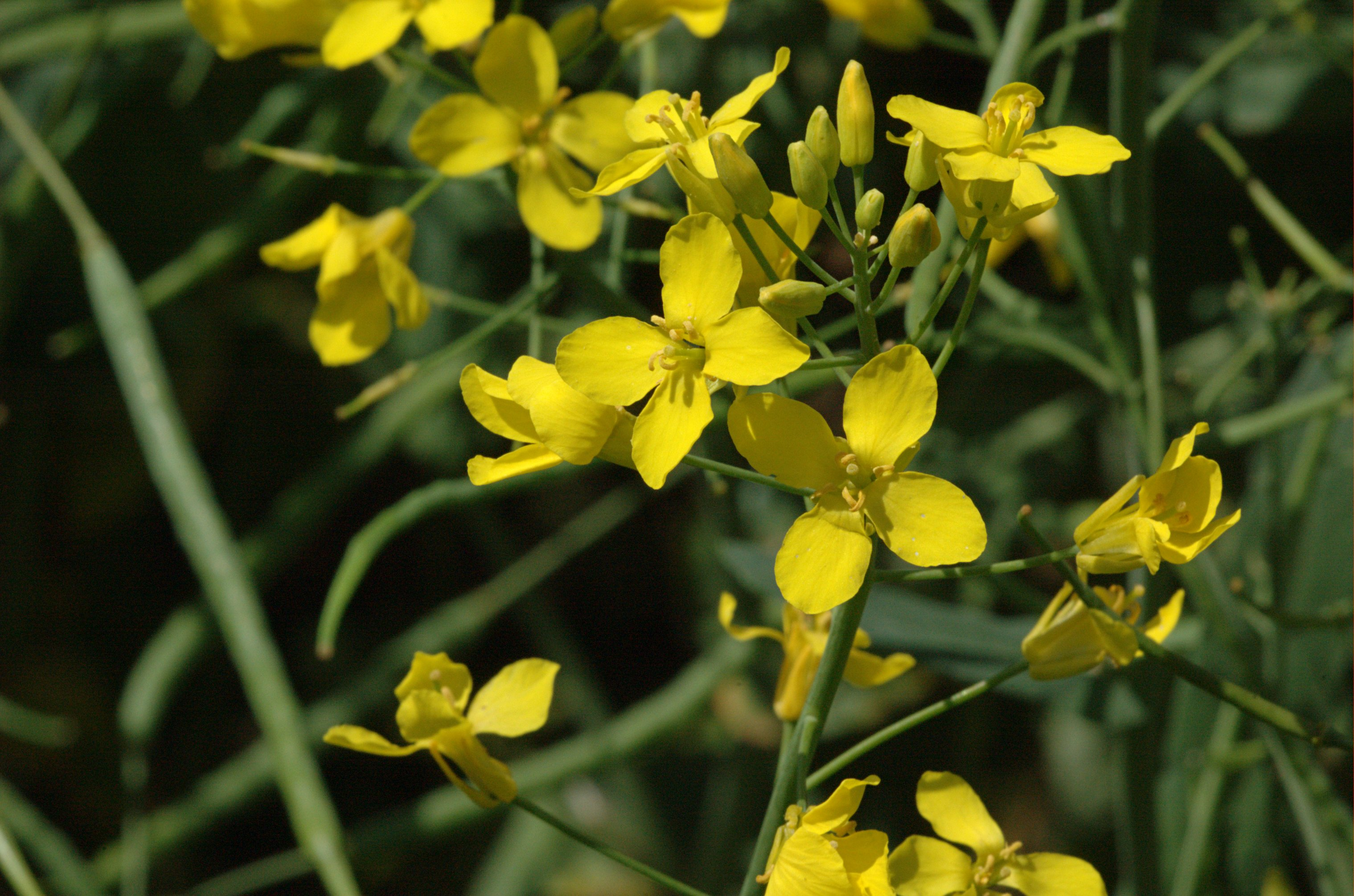 Rapeseed, Brassica napus, flowers. Near St Albans, Hertfordshire, England.